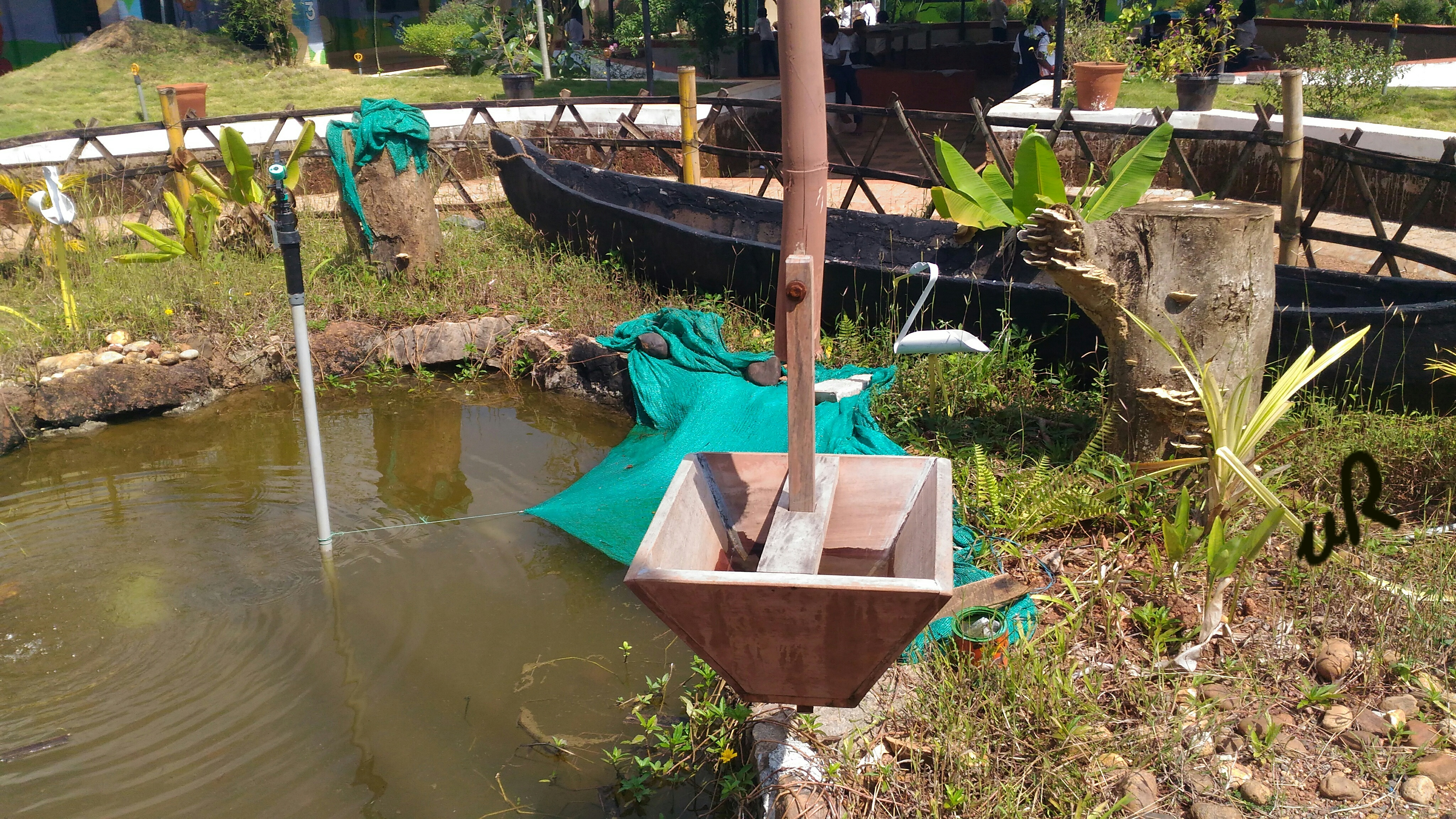 shadoof_Ethakkotta_bucket